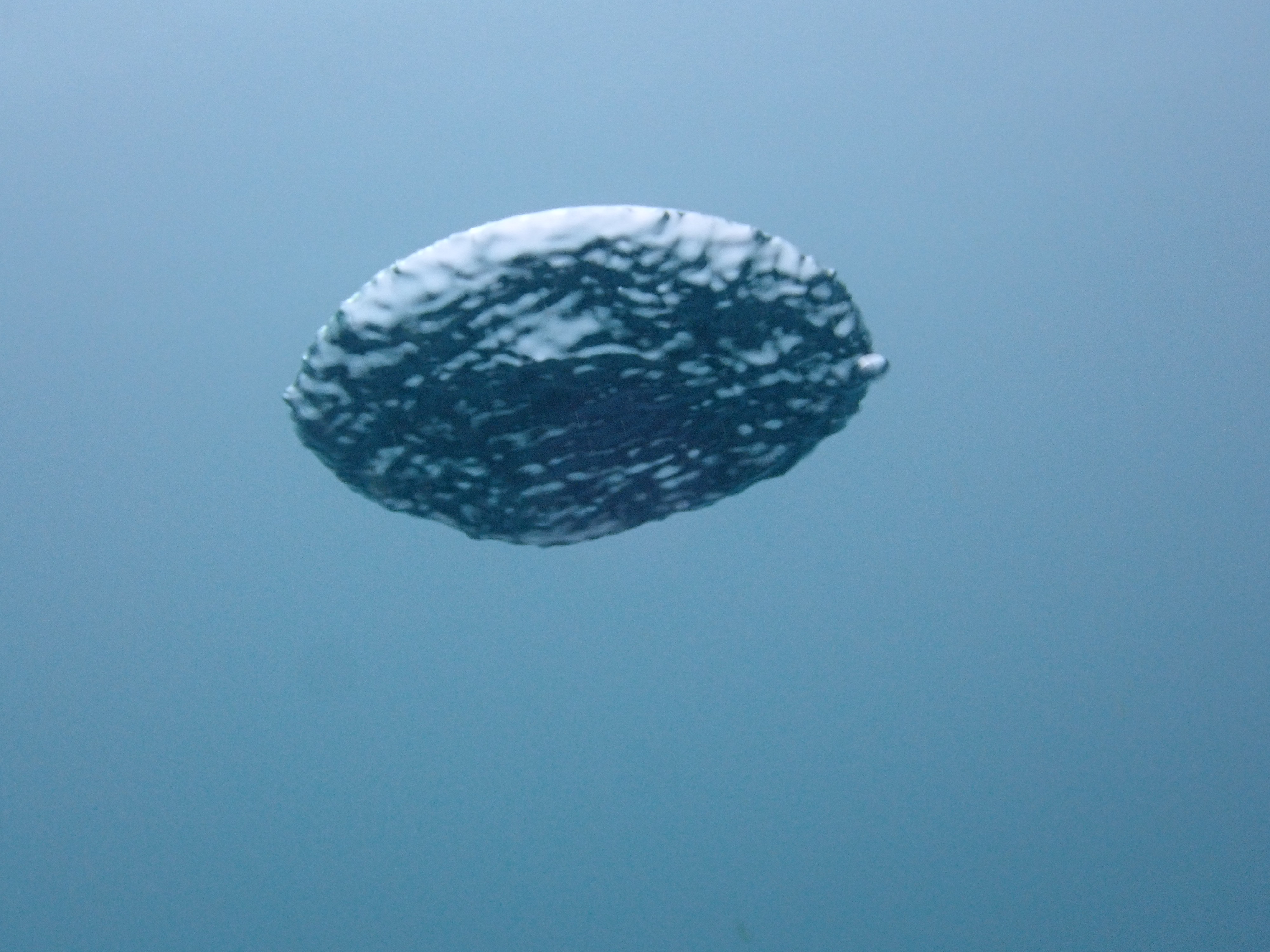 Bubble of exhaled gas from scuba diver - underside